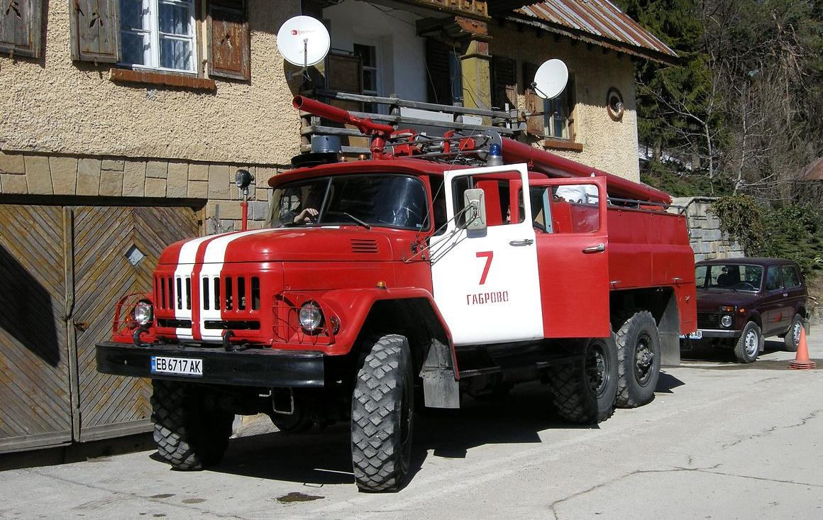 Bulgarian fire engine from the region of Gabrovo - 07.